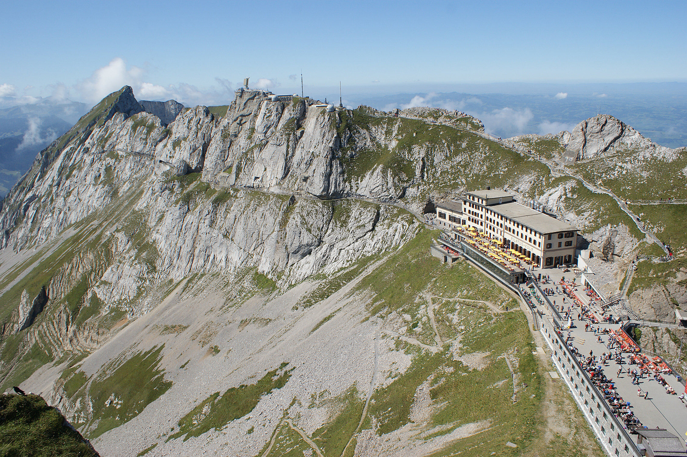 Mount Pilatus, Switzerland: the ridge seen from Esel with Tomlishorn (2132 m) to the left, Oberhaupt (2106 m) to the right and restaurant Kulm.